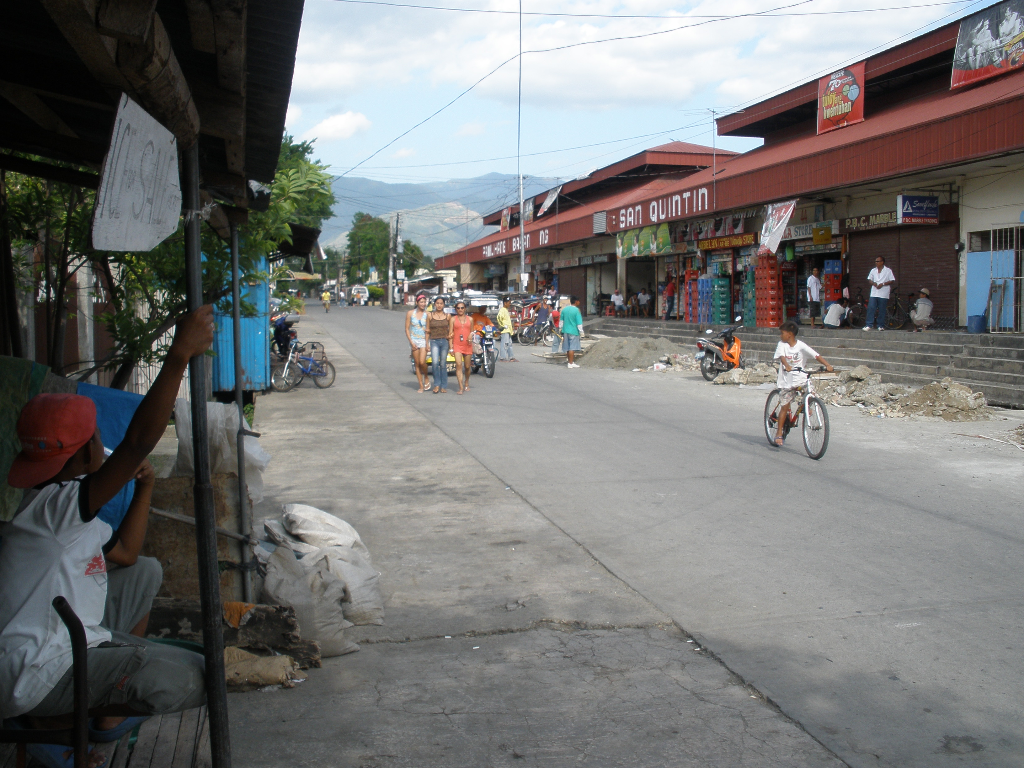 View of Market in San Quintin from Figuera Street